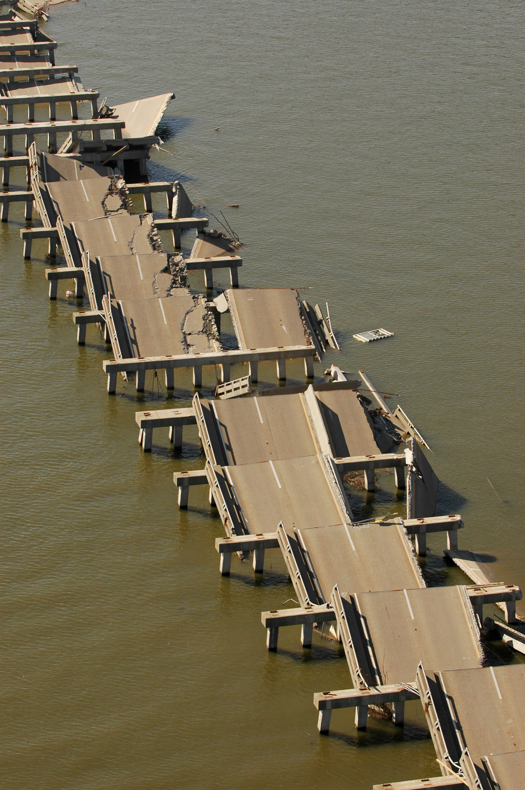 Pass Christian, Ms., October 4, 2005 -- Aerial photo of destroyed Mississippi gulf coast Highway I-90 as a result of winds and tidal surge from Hurricane Katrina. This section of bridge connects Pass Christian, near Gulfport to Bay St. Louis. John Fleck / FEMA